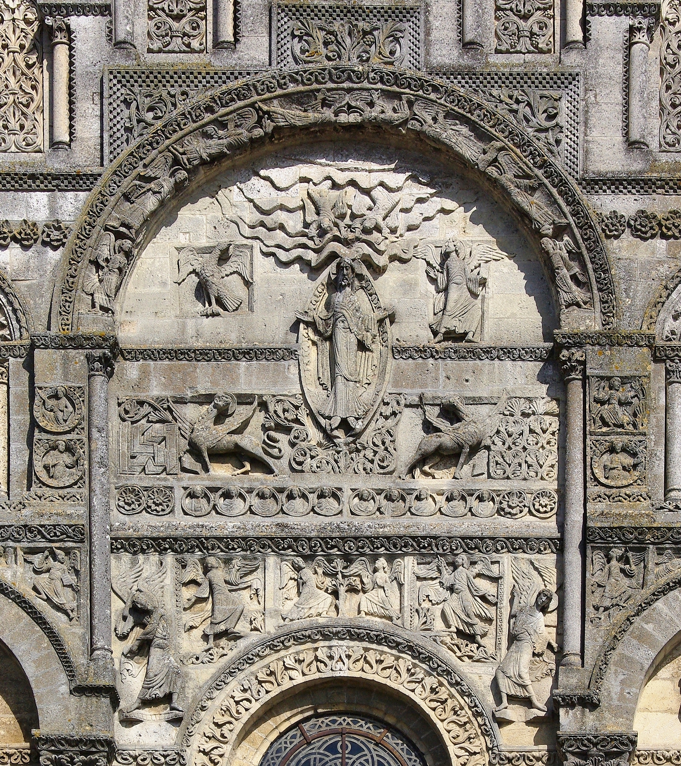 Christ in in a mandorla, surrounded by emblems of the evangelists (tetramorph). Central arch of the façade (XIIth century). Cathédrale Saint-Pierre, Angoulême, Charente, France.